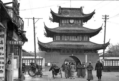 Nanjing government from 1927 to 1949.